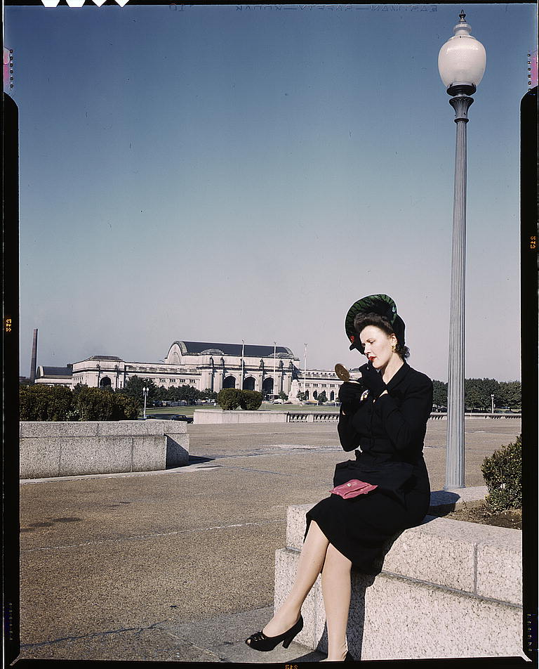 Woman putting on her lipstick in a park with Union Station behind her, Washington, D.C.